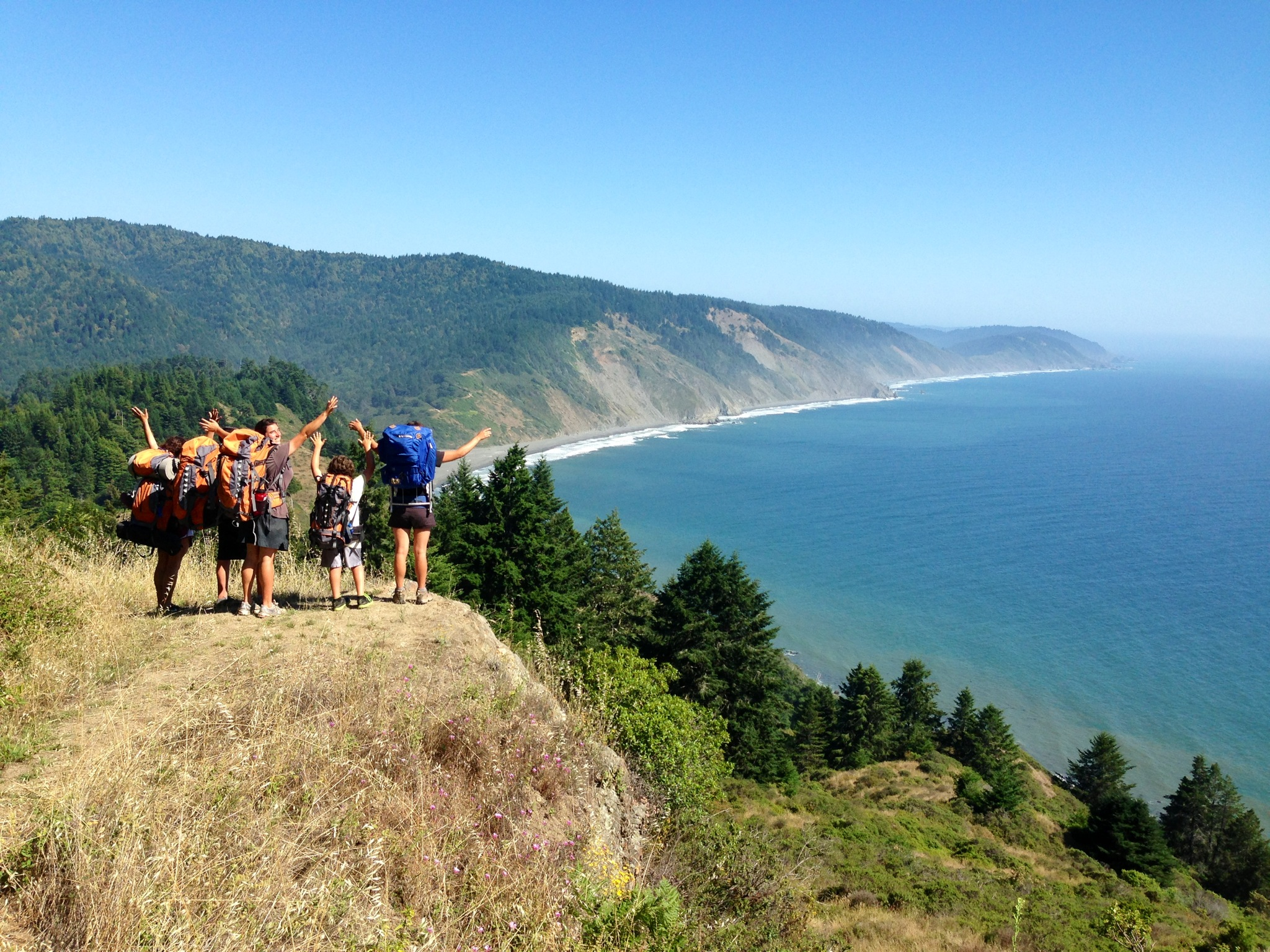 Backpackers and day hikers alike can enjoy spectacular views along the cliffs of this stretch of remote coastline.